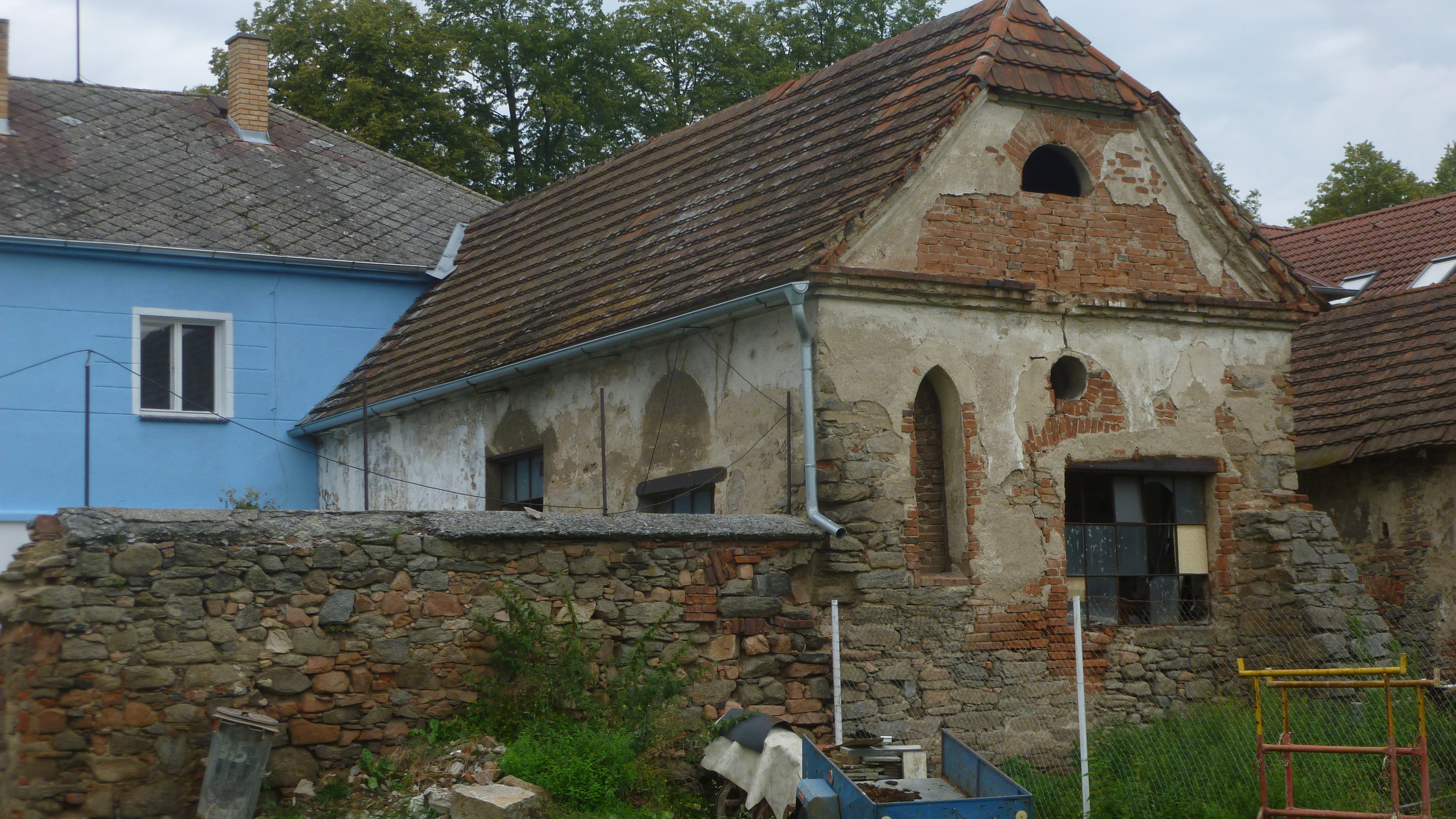 Former synagogue in the village of Zalužany, Central Bohemian Region, Czech Republic.